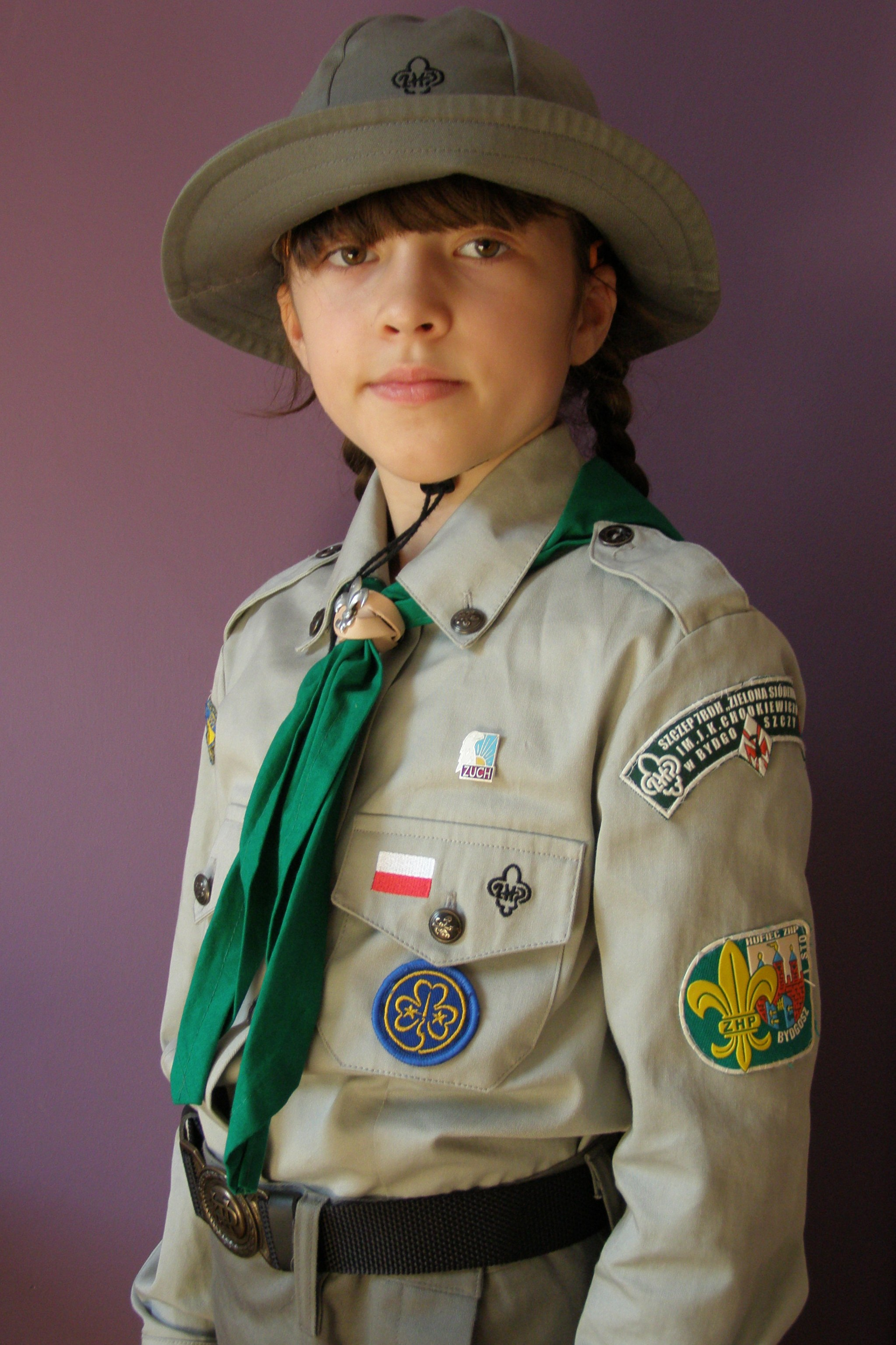 Uniform of girl Cub Scout in Poland (ZHP)